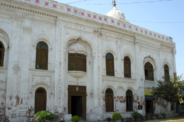 The Pothimala Building, built under the supervision of Guru Jiwan Mal in 1745, is situated in the Guruharsahai Village. The building has beautiful wood carvings on the walls as well as on the ceilings. This site is famous for the Annual Mela, when worshippers can see Guru Nanak’s padam, topi, pothi and mala.